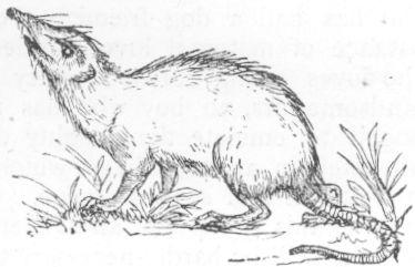 drawing of an Echinosorex gymnura (at the time of the creation of the picture Gymnura rafflesii) (Moonrat)